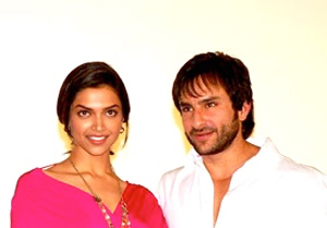 Indian actors Saif Ali Khan and Deepika Padukone at the first look launch of their film Love Aaj Kal in 2009